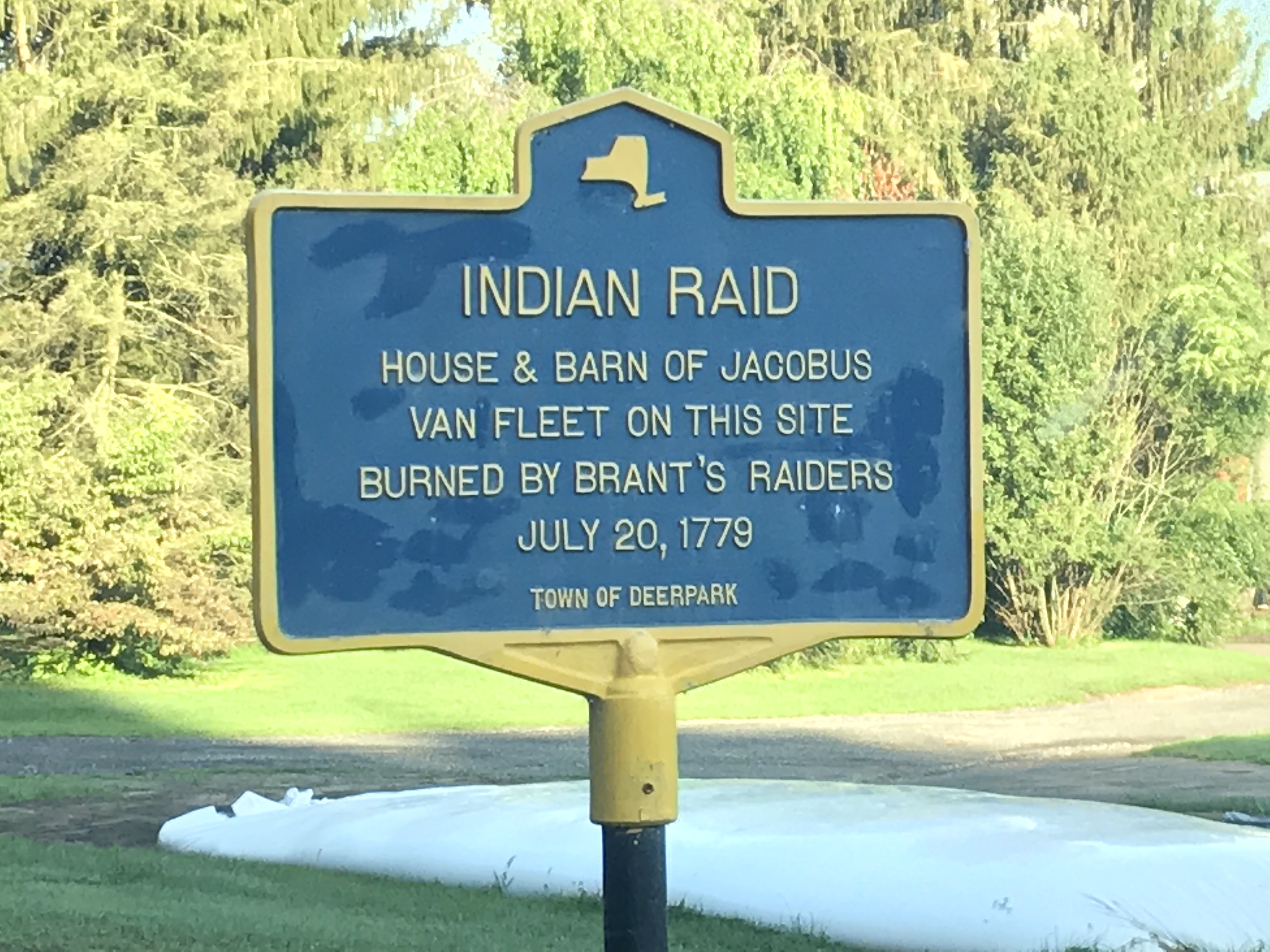 Historic marker on Neversink Drive Van Fleet house attacked in Indian Raid, 1779, Town of Deerpark, Orange County, New York. Orange County CR80.